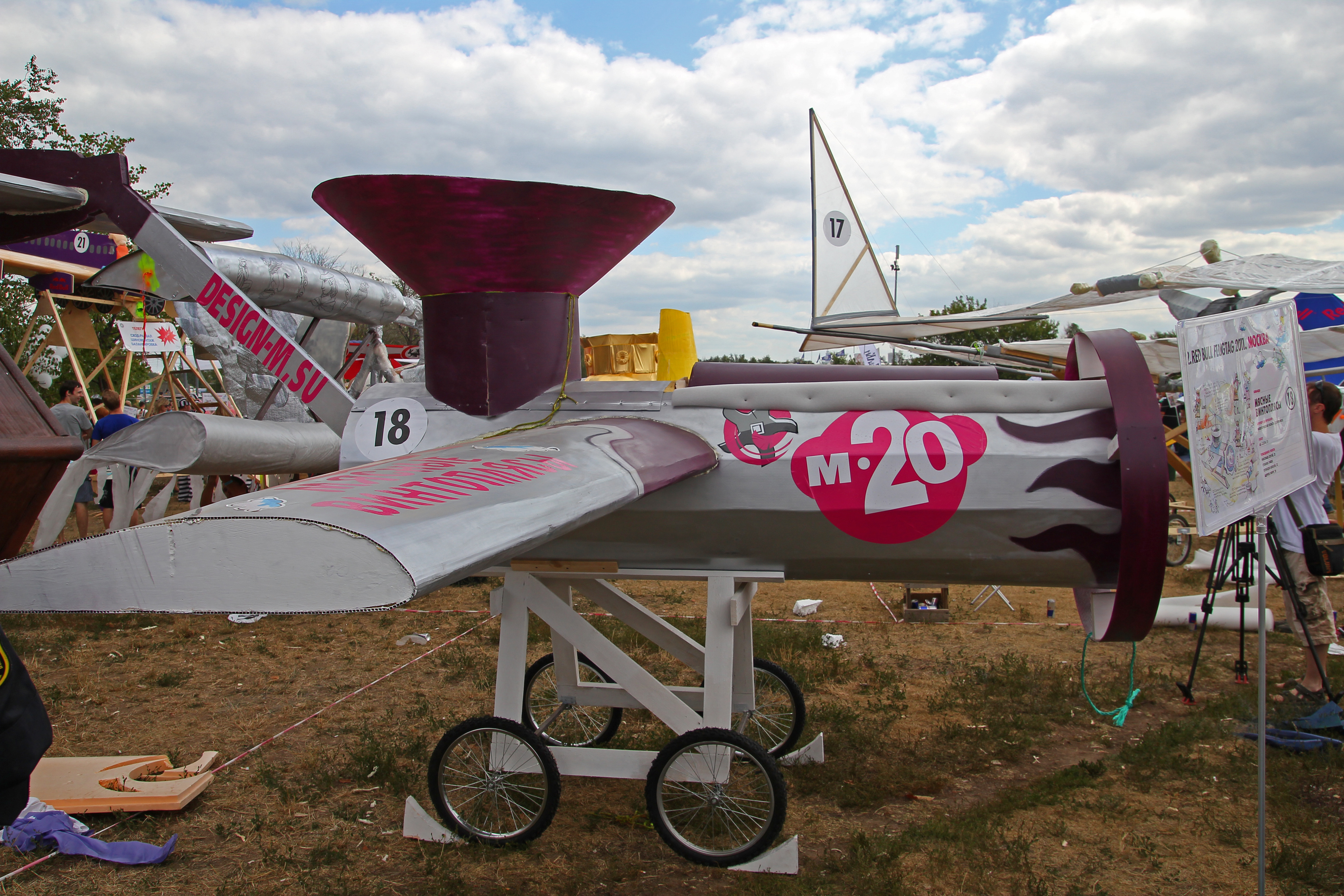 Red Bull Flugtag in Moscow, August 2011. Exposition of flying machines which took part on contest.